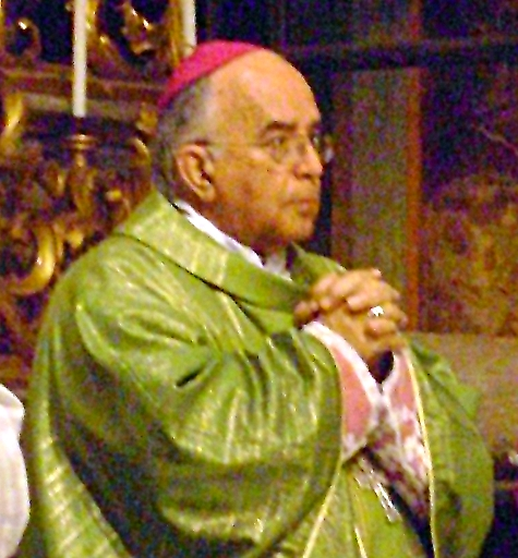 Photo of Luciano Pacomio, italian bishop, taken at Ceva (Italy)